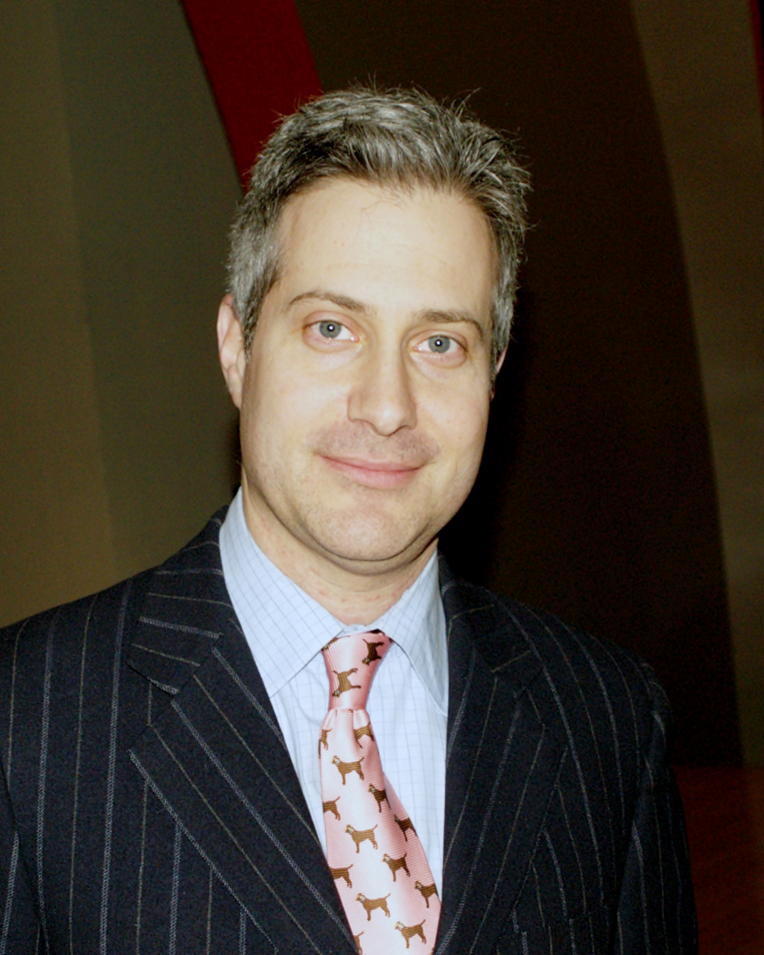 Darin Strauss at the 2010 National Book Critics Circle awards. Strauss won in the autobiography category for his book Half a Life.